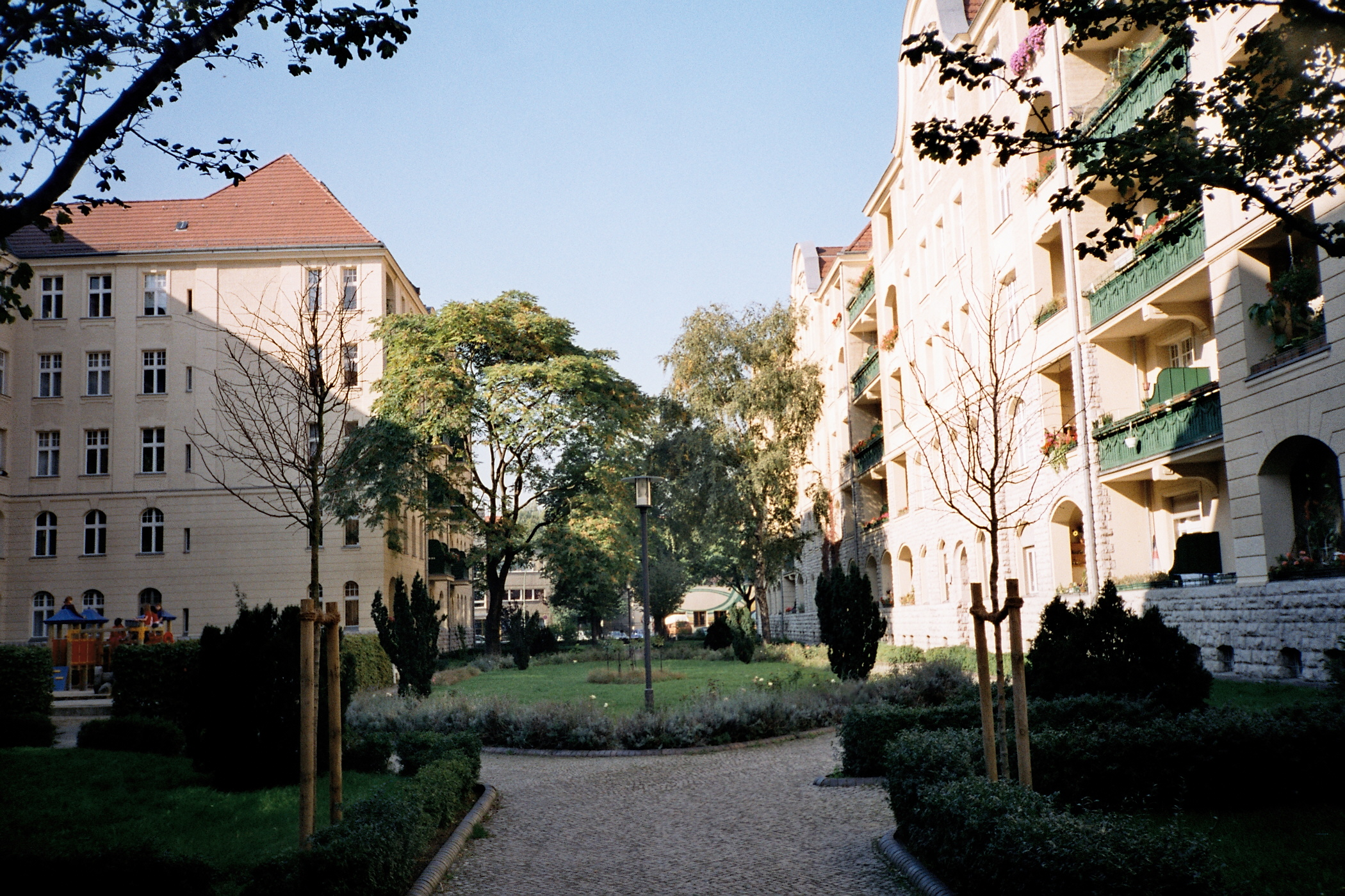 Description: Helenenhof in Berlin-Friedrichshain. Source: self-made. I release it into the public domain.